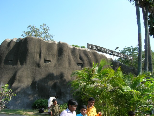 This is not the current Entrance of the Zoo this being under modification.